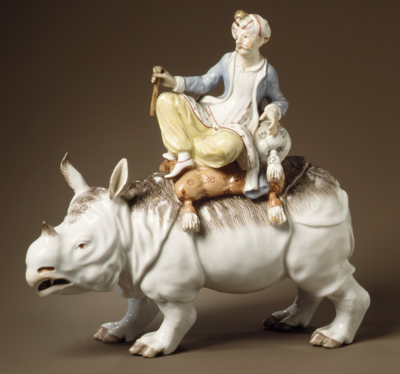 German, Ludwigsburg; Group; Ceramics-Porcelain